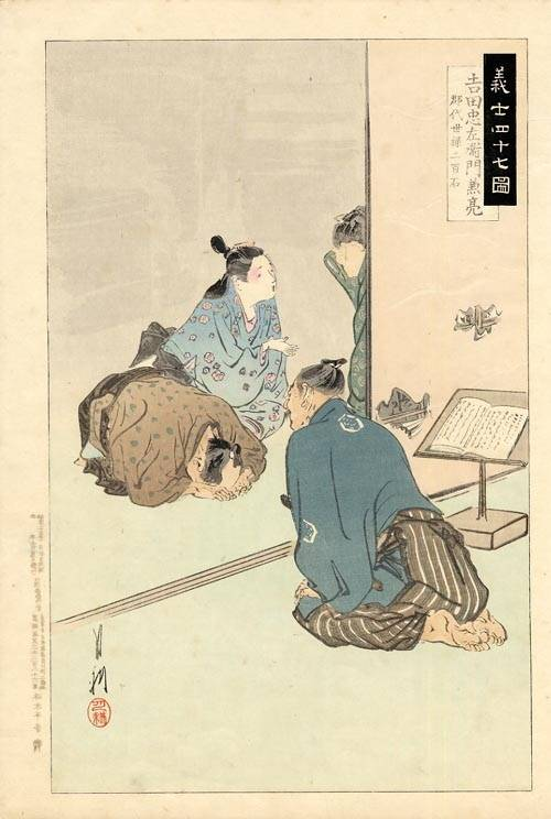 Ronin are masterless samurai. Chushingura is the true story of 47 samurai who became masterless in 1701, after their lord had been forced to commit ritual suicide (seppuku) for assaulting a court official who had insulted him. They avenged him by killing the court official after patiently planning for over a year. They were themselves then forced to commit seppuku.